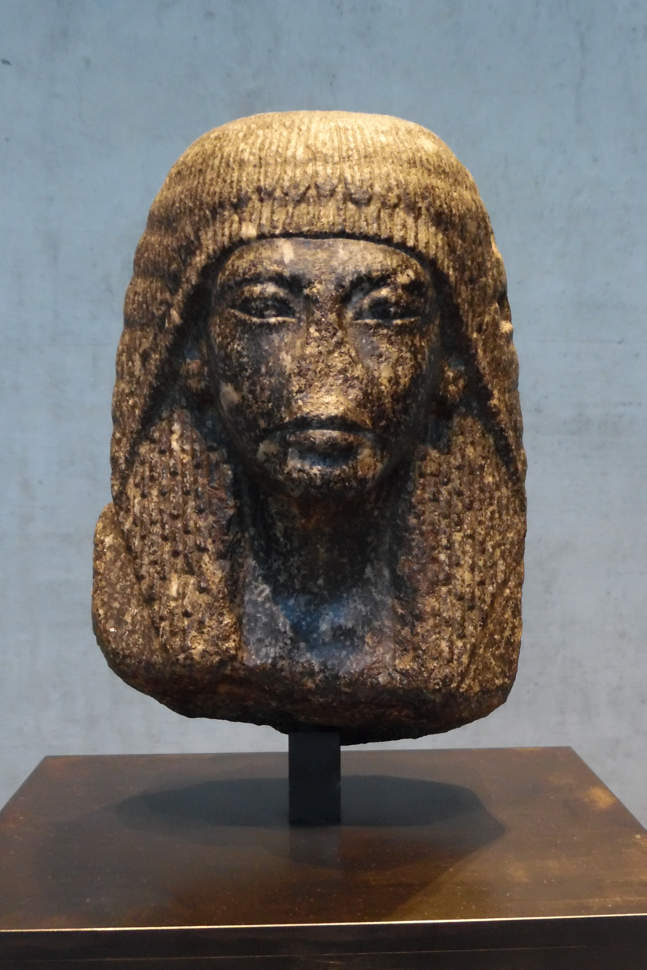 Statue head thought to depict vizier Paramesses, the future king Ramesses I. Granite, end of the 18th Dynasty, New Kingdom (c.1310 BCE). Munich, Staatliches Museum Ägyptischer Kunst, ÄS 7924. Acquired with the support of the Ernst von Siemens Art Foundation.